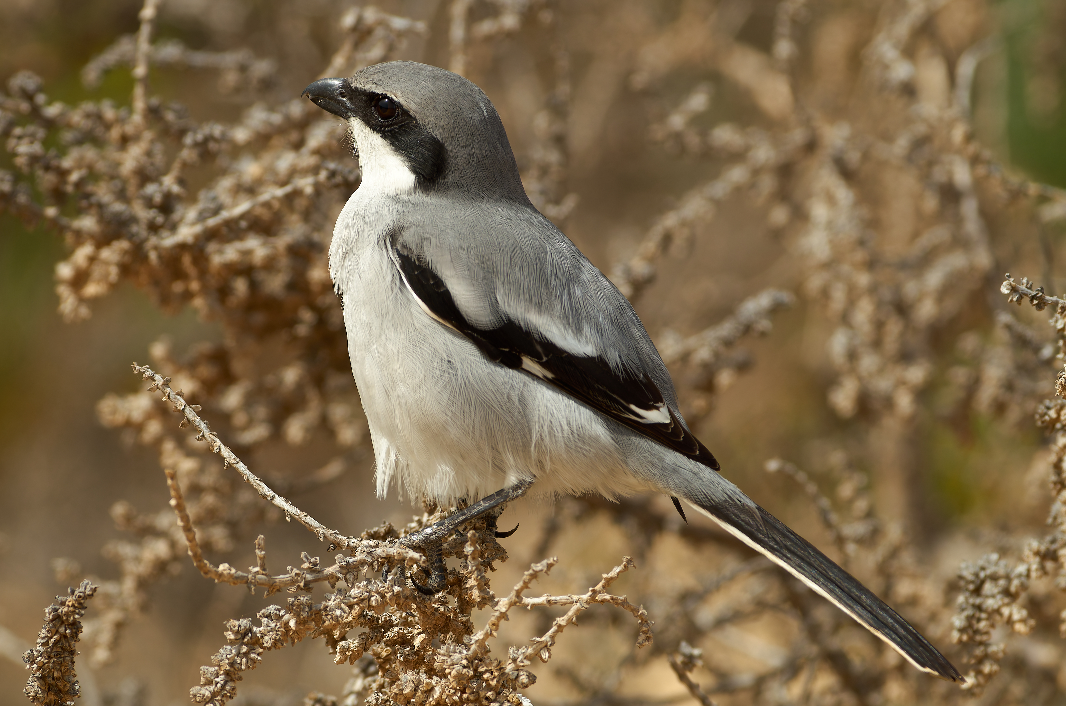 Great grey shrike, Subspecies L. e. koenigi on Fuerteventura